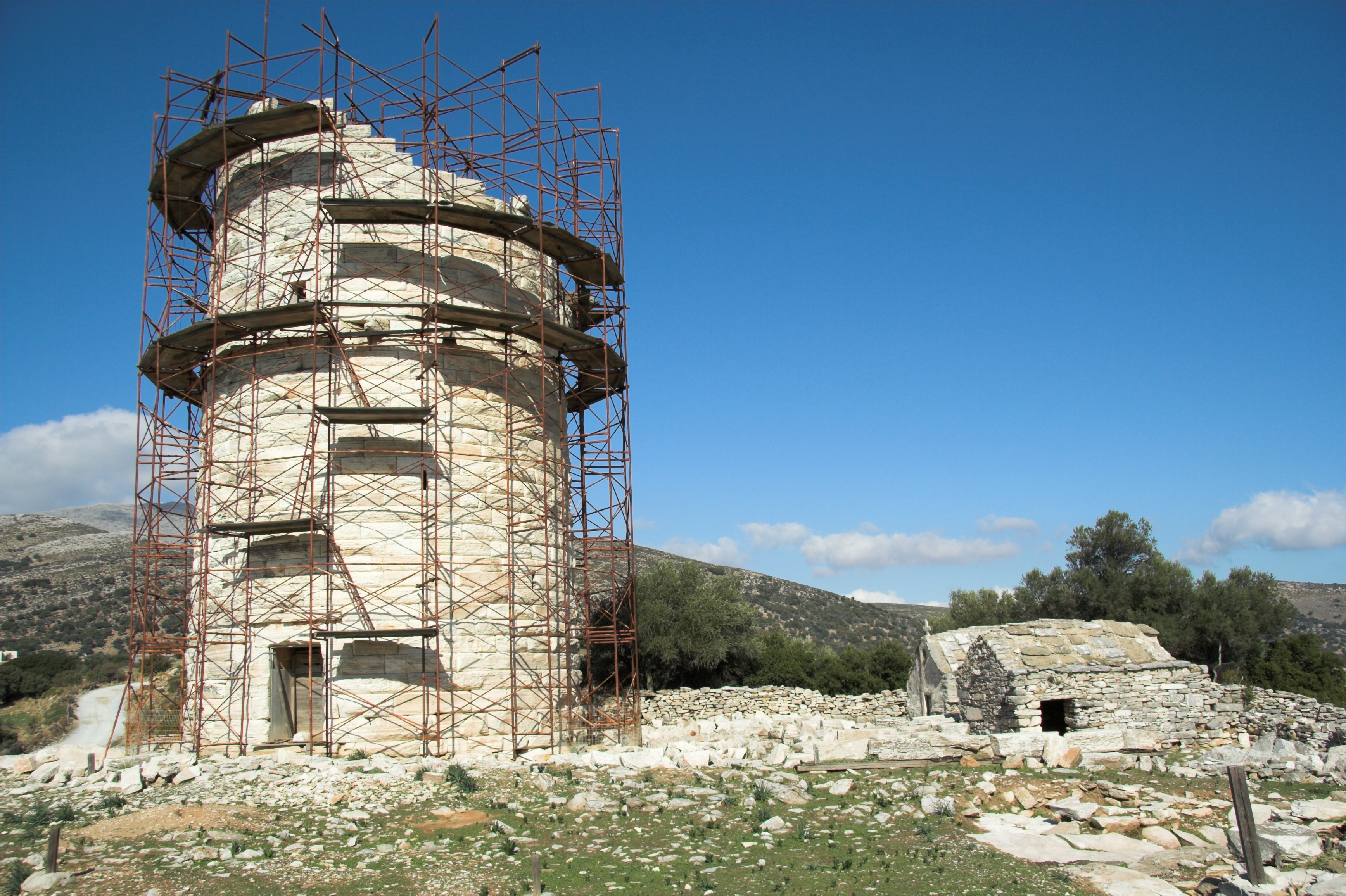 Pyrgos Cheimarrou (Chimarru), Naxos. Standing military tower of the Hellenistic period! According to various sources comes from the 4th to 2 century BC.